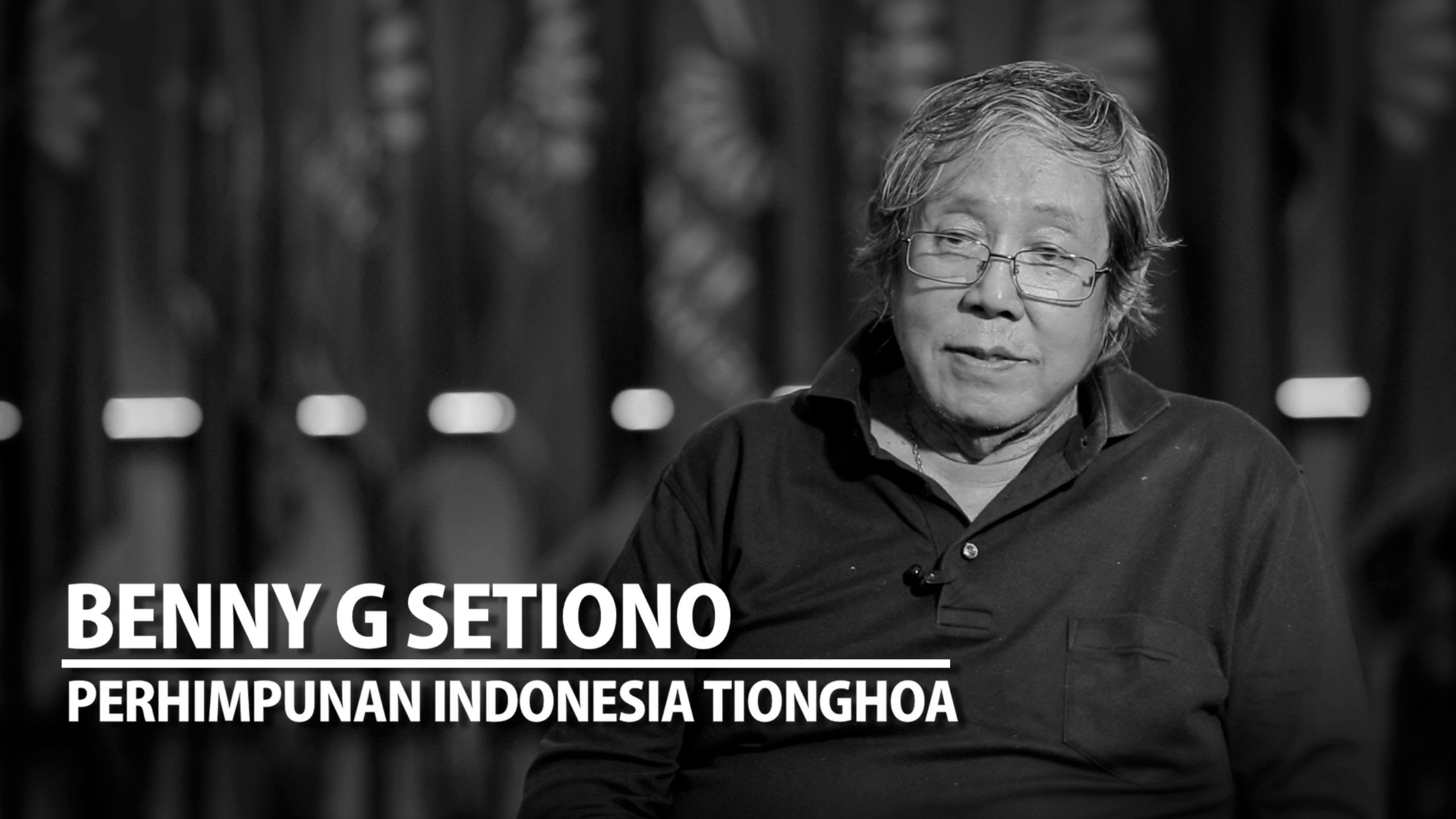 Penulis sejarah Tionghoa dan pendiri INTI